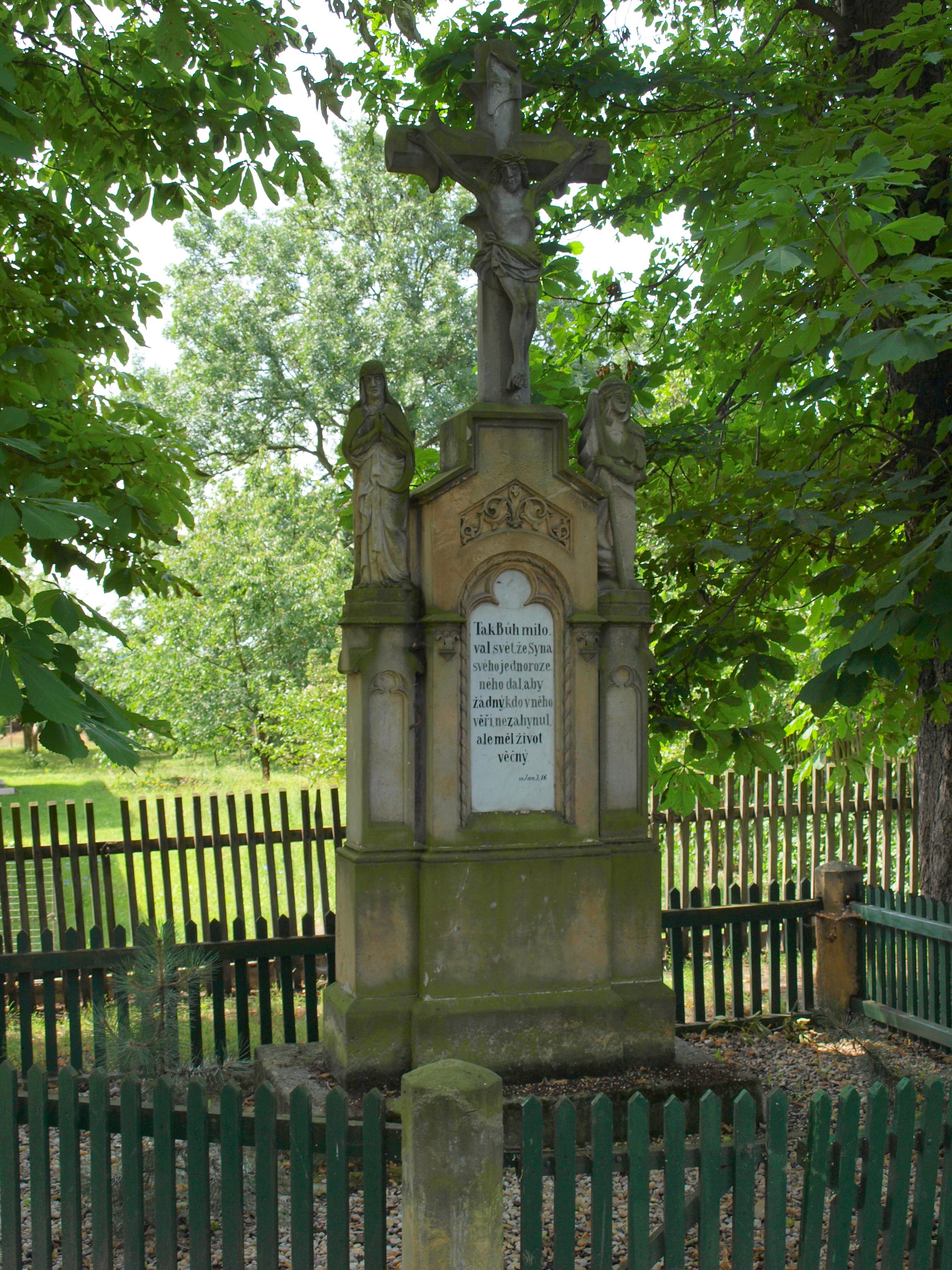 Memorial, Kovansko, Bobnice, Nymburk District, Central Bohemian Region